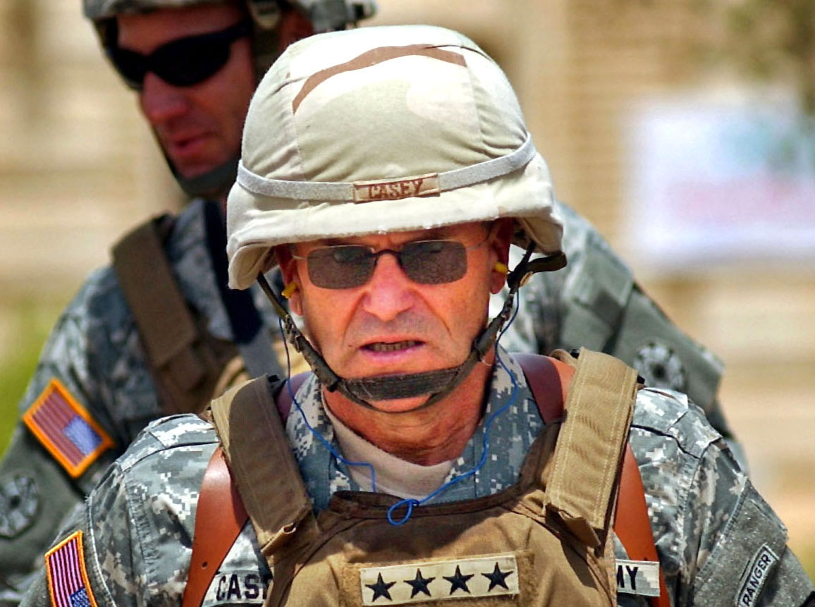 Gen. George W. Casey Jr., commander, Multi-National Force-Iraq, arrives in Tikrit for a ceremony marking the 4th Iraqi Army Division's assumption of security responsibilities for the provinces of Salah Ad Din and Kirkuk. This photo appeared on